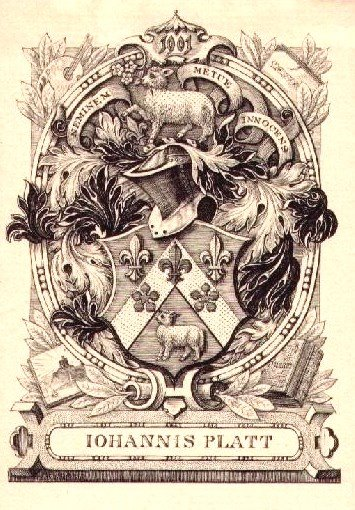 Exlibris. Author: Charles William Sherborn (1831 – 1912)